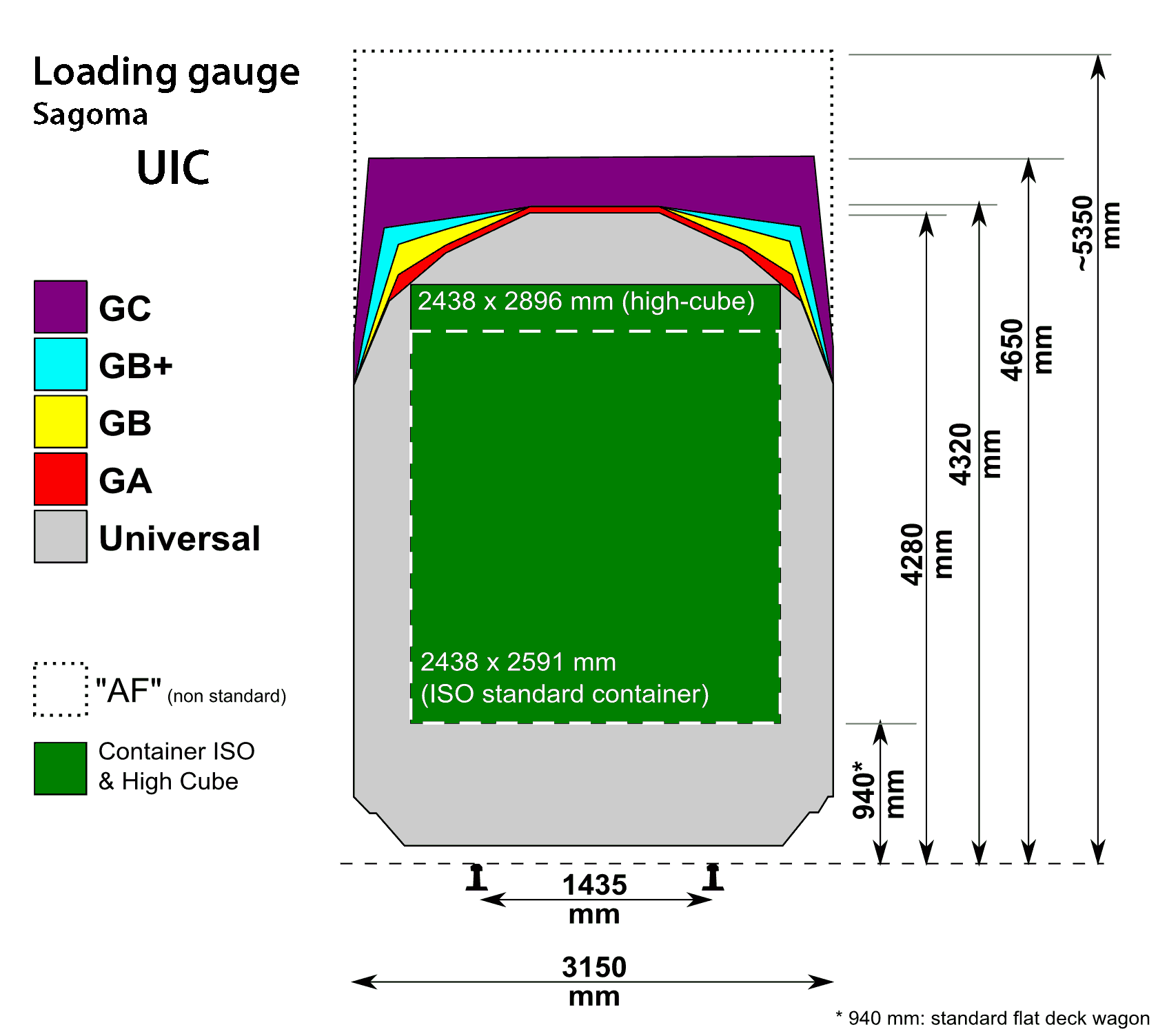 Railway Loading gauge UIC and containers profile